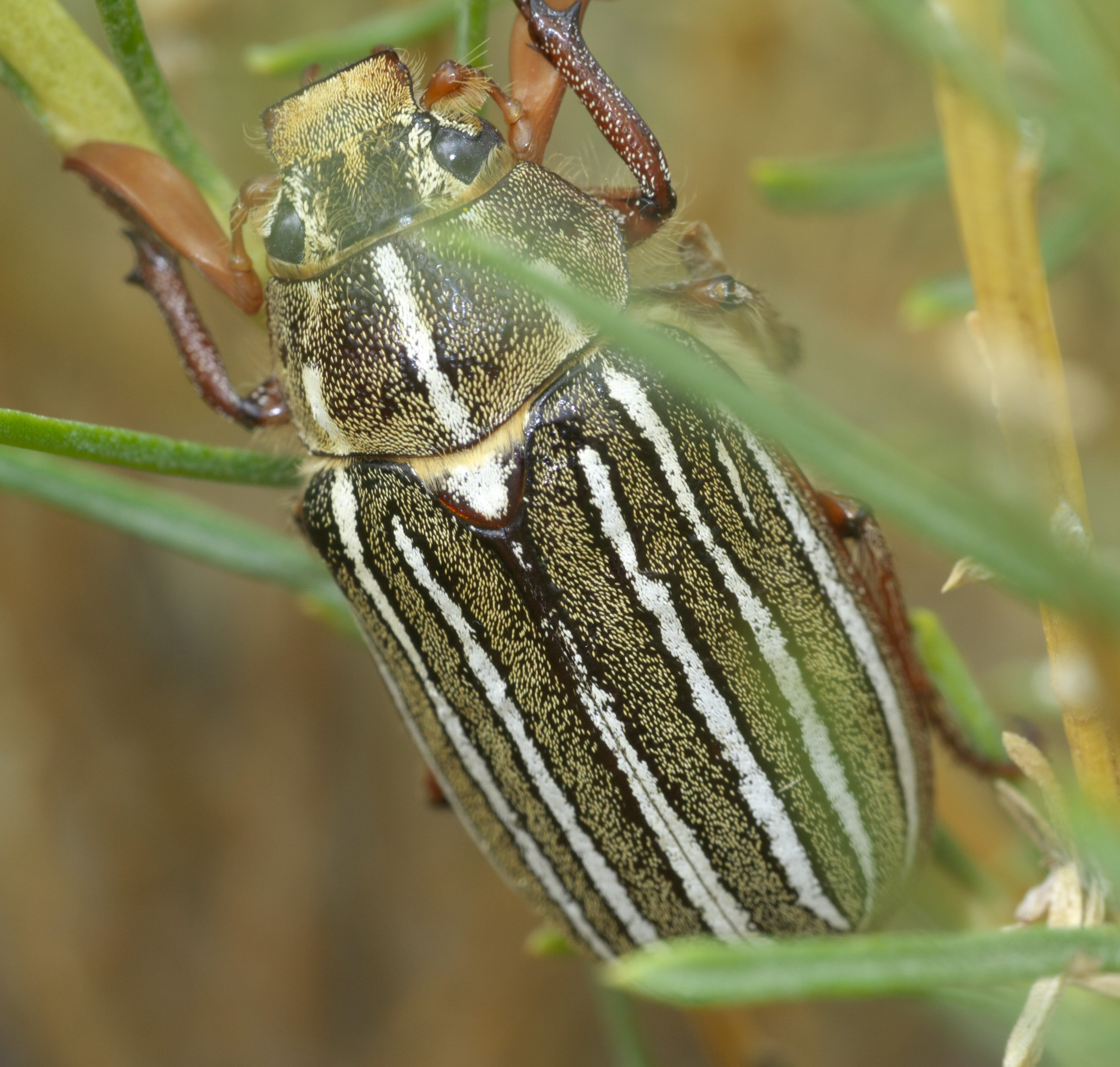 Polyphylla decemlineata, ten-lined June beetle, ID Confidence: 88